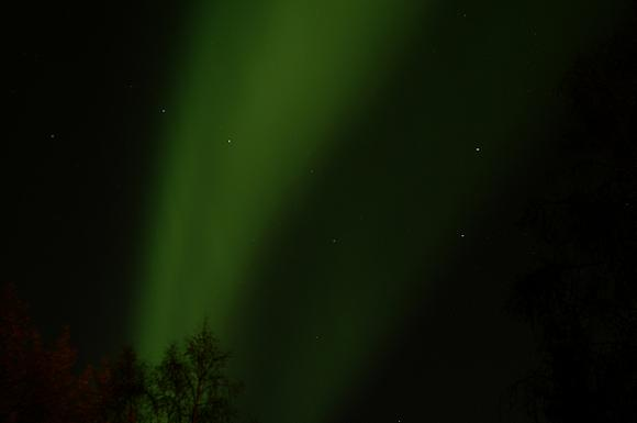 Big Dipper and Northern Lights near Fairbanks, AK.